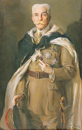 Louis Hubert Gonzalve Lyautey (1854-1934) was a French general, the first Resident-General in Morocco.